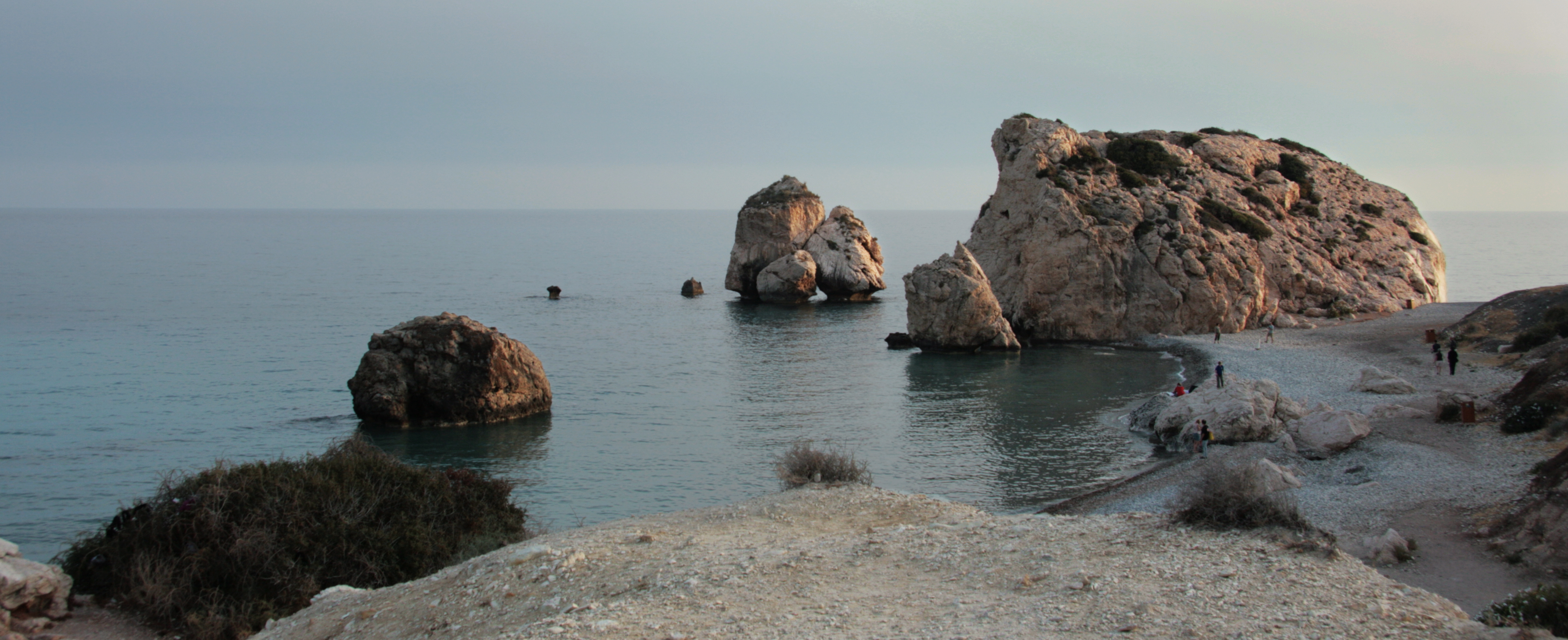 Petra Tou Romiou (Rock of the Greek), or Aphrodite's Rock